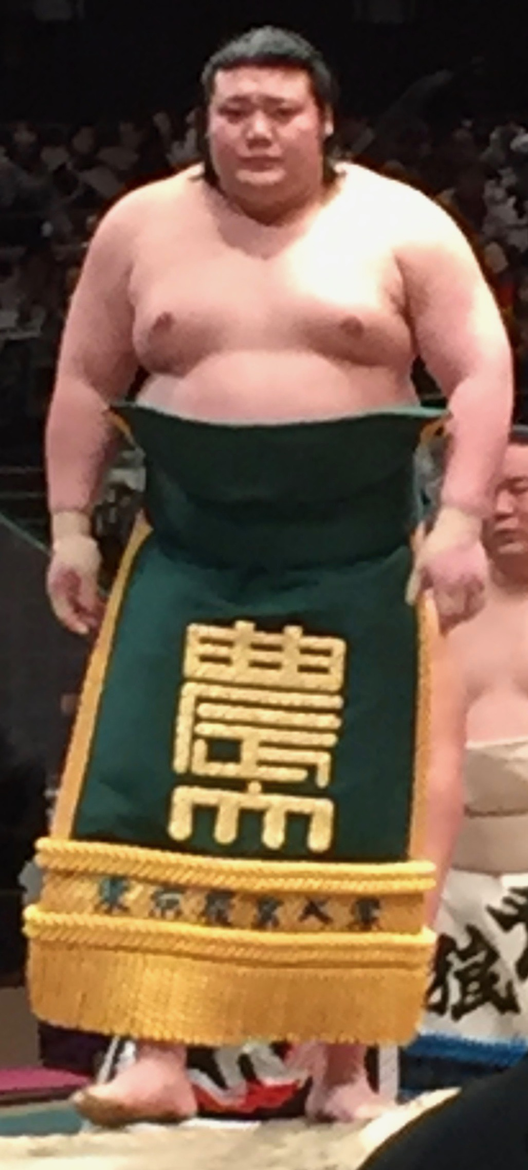 taken at Jan 2017 tournament